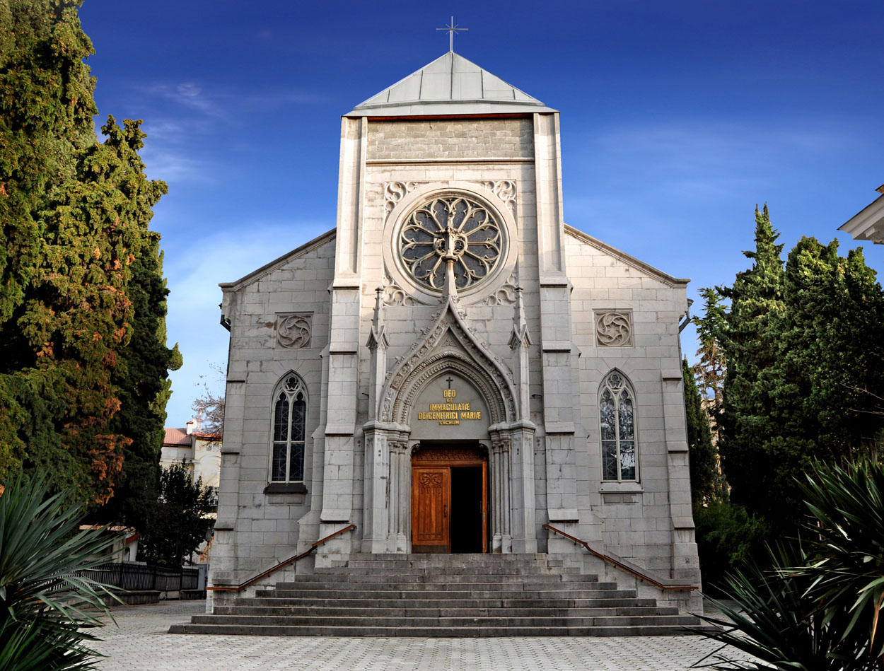 Roman-Catholic church of Immaculate conception in Yalta, Crimea, Ukraine